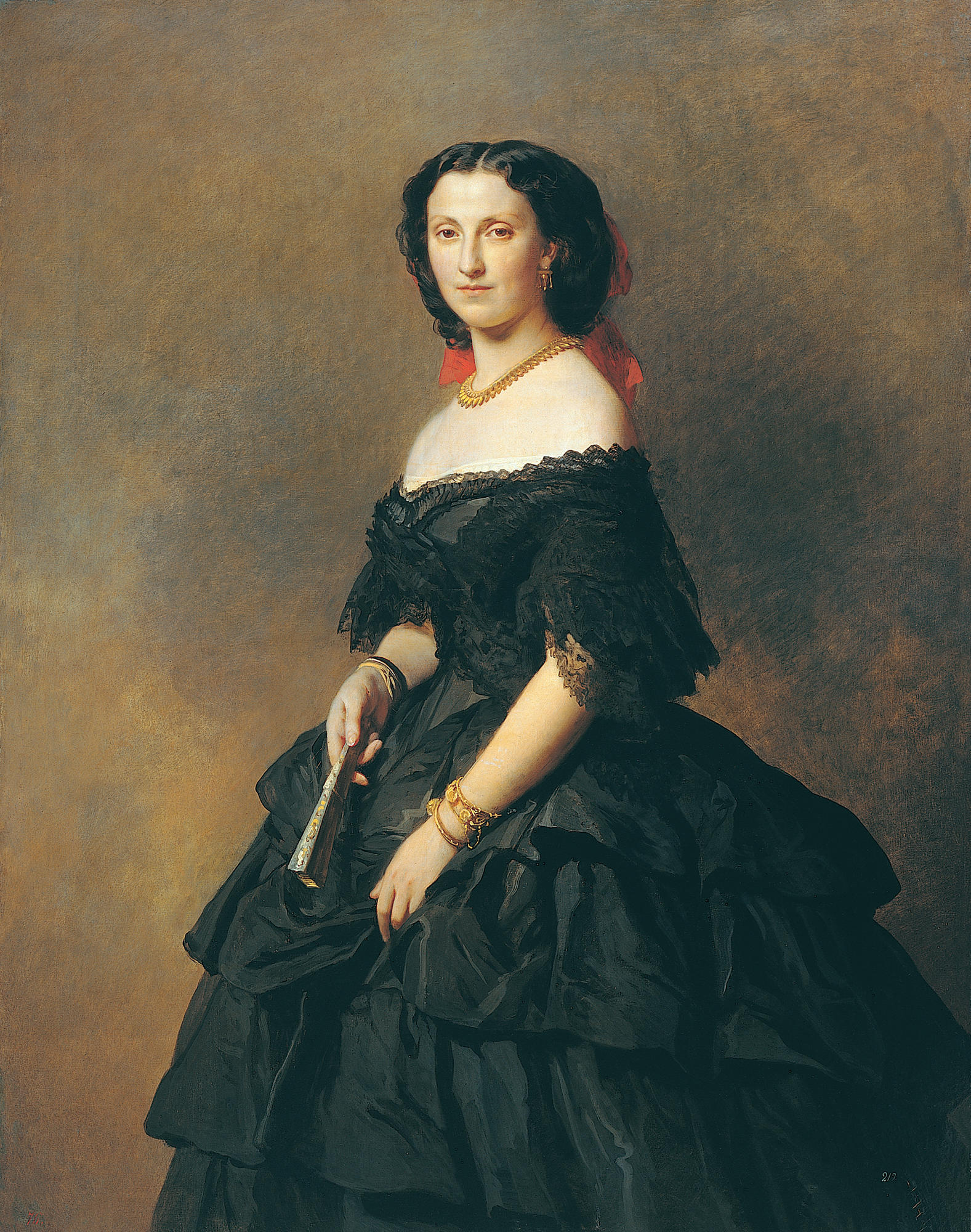 Portrait of Princess Elizaveta Alexandrovna Tchernicheva (1826–1902), wife of Prince Vladimir Ivanovich Bariatinsky